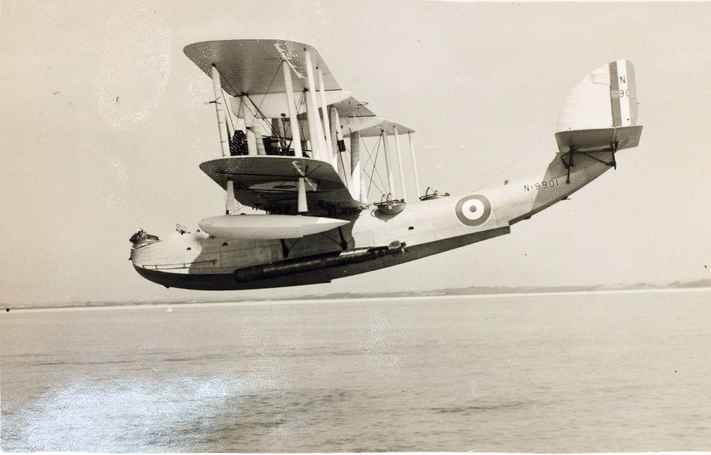 Supermarine Southampter of Royal Air Force.